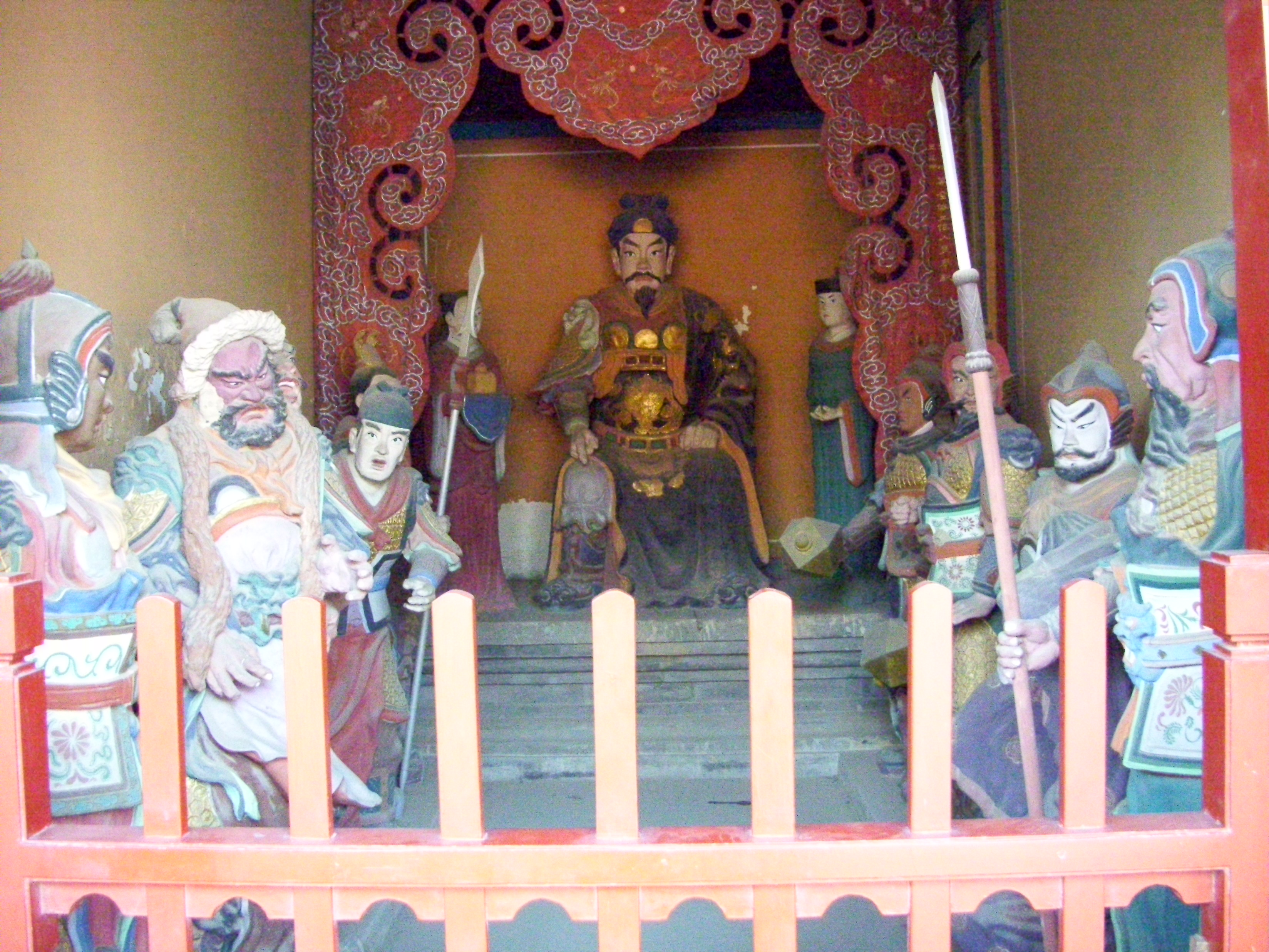 Department of Instant Rewards and Retribution, the middle man is Yue Fei.